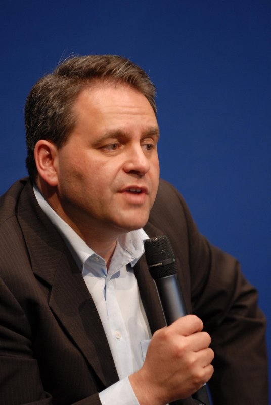 Xavier Bertrand, august 2007, french Minister of Social Affairs and Employment